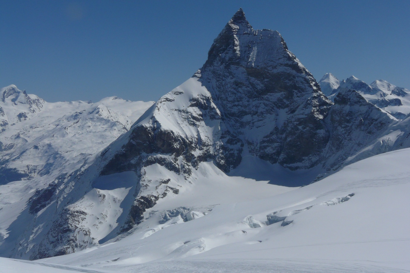 Matterhorn - West face